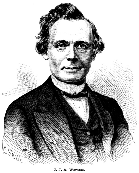 Jens Jacob Asmussen Worsaae, Danish archaeologist, from Svenska Familj-Journalen 1885.